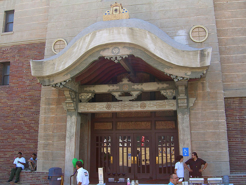 Decades in the making and finished in 1992, the Japanese American National Museum is an important cornerstone in preserving the historic association of Little Tokyo with the Japanese American experience.